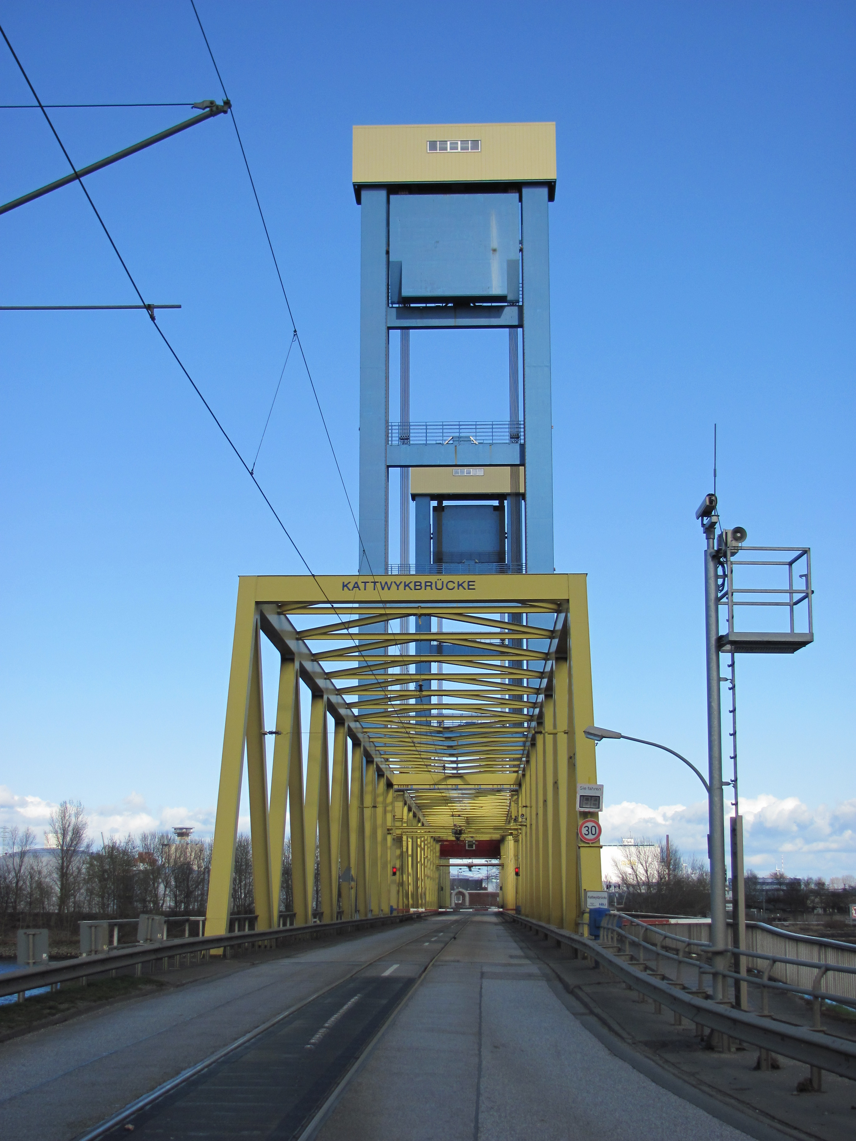 Kattwykbrücke